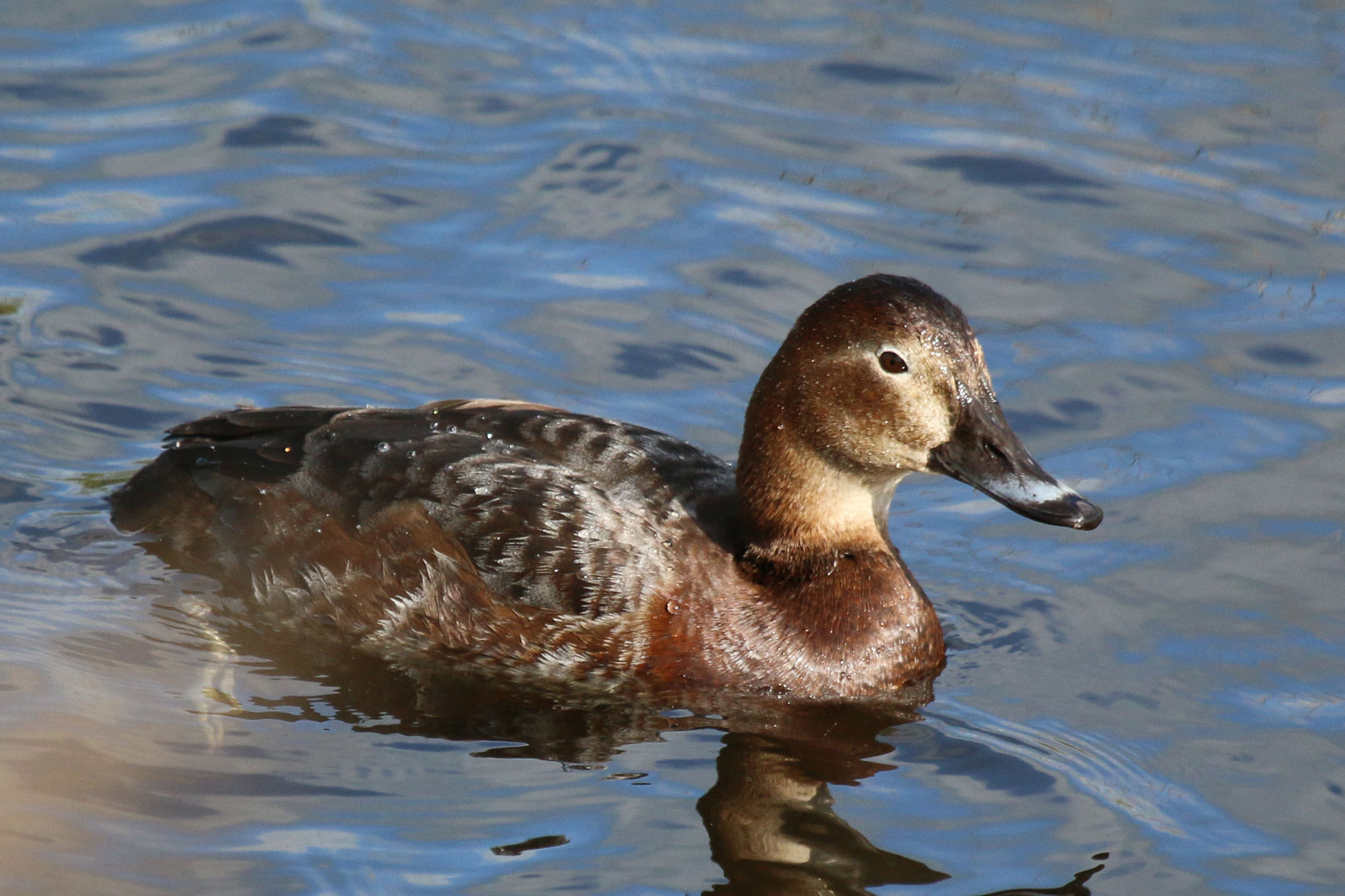 Common pochard (Aythya ferina), Otmoor, Oxfordshire